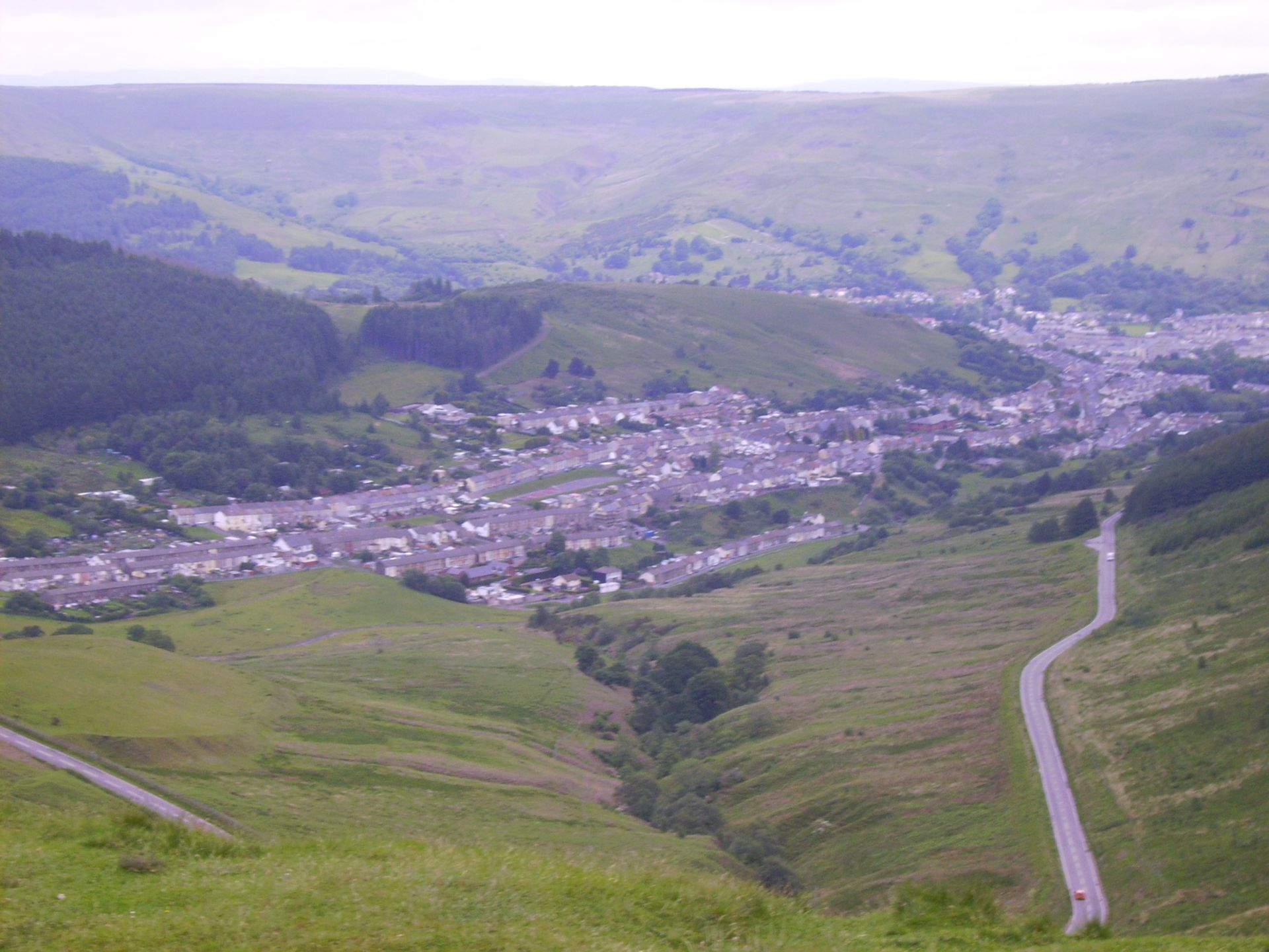 Cmwparc, Rhondda taken from the Bwlch mountain